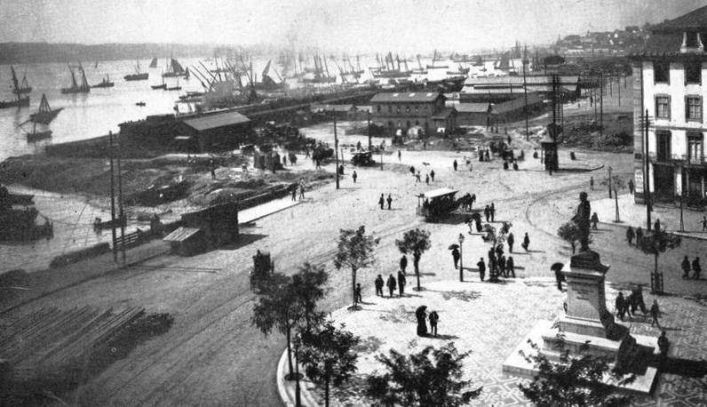 The Cais do Sodré area, in Lisbon, at the end of the 19th Century.. The original Cais do Sodré Railway Station appears at the left of the picture.